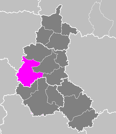 Maps of arrondissements and cantons of France: Arrondissement d Épernay.PNG